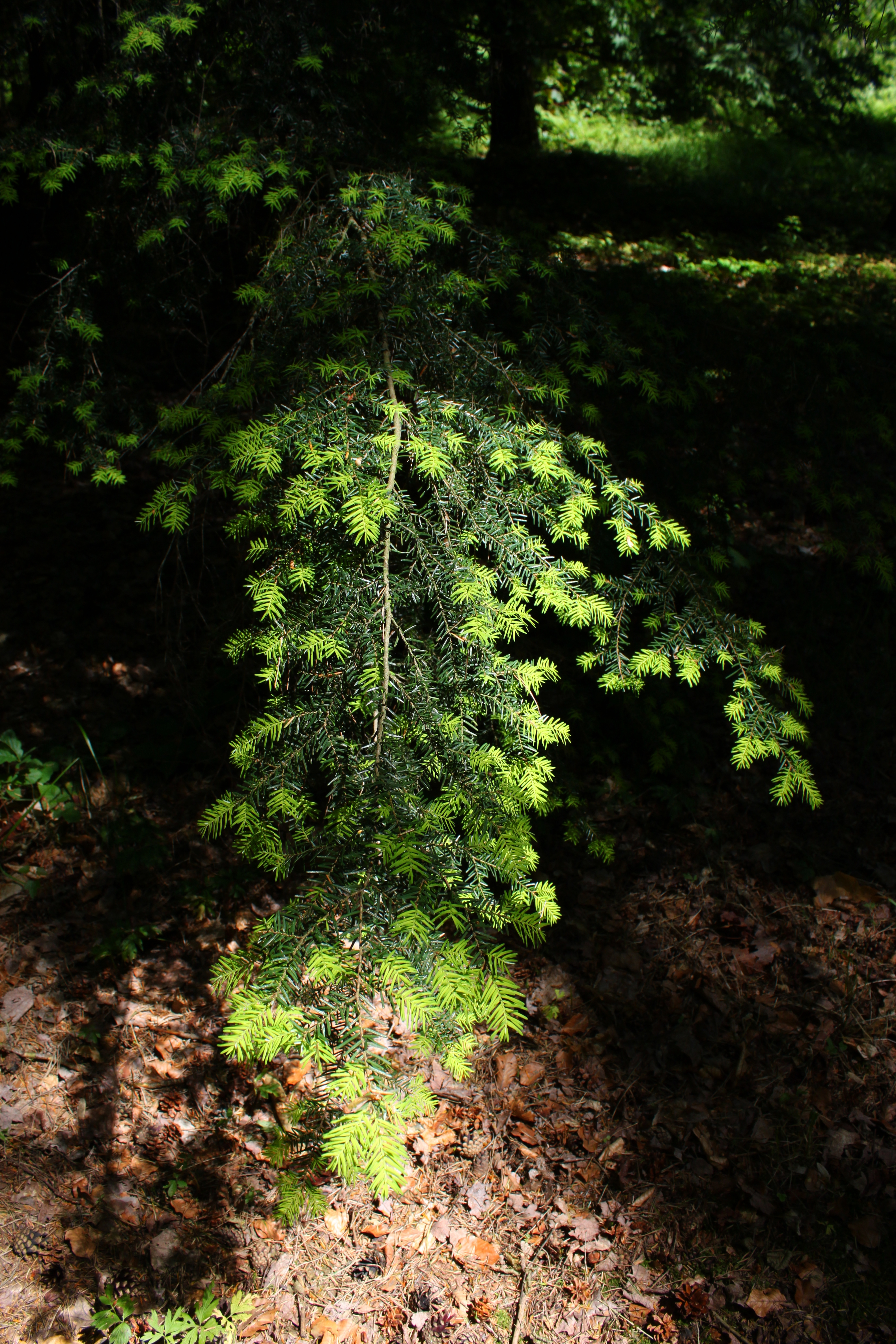 Tsuga caroliniana branch in Rogów Arboretum